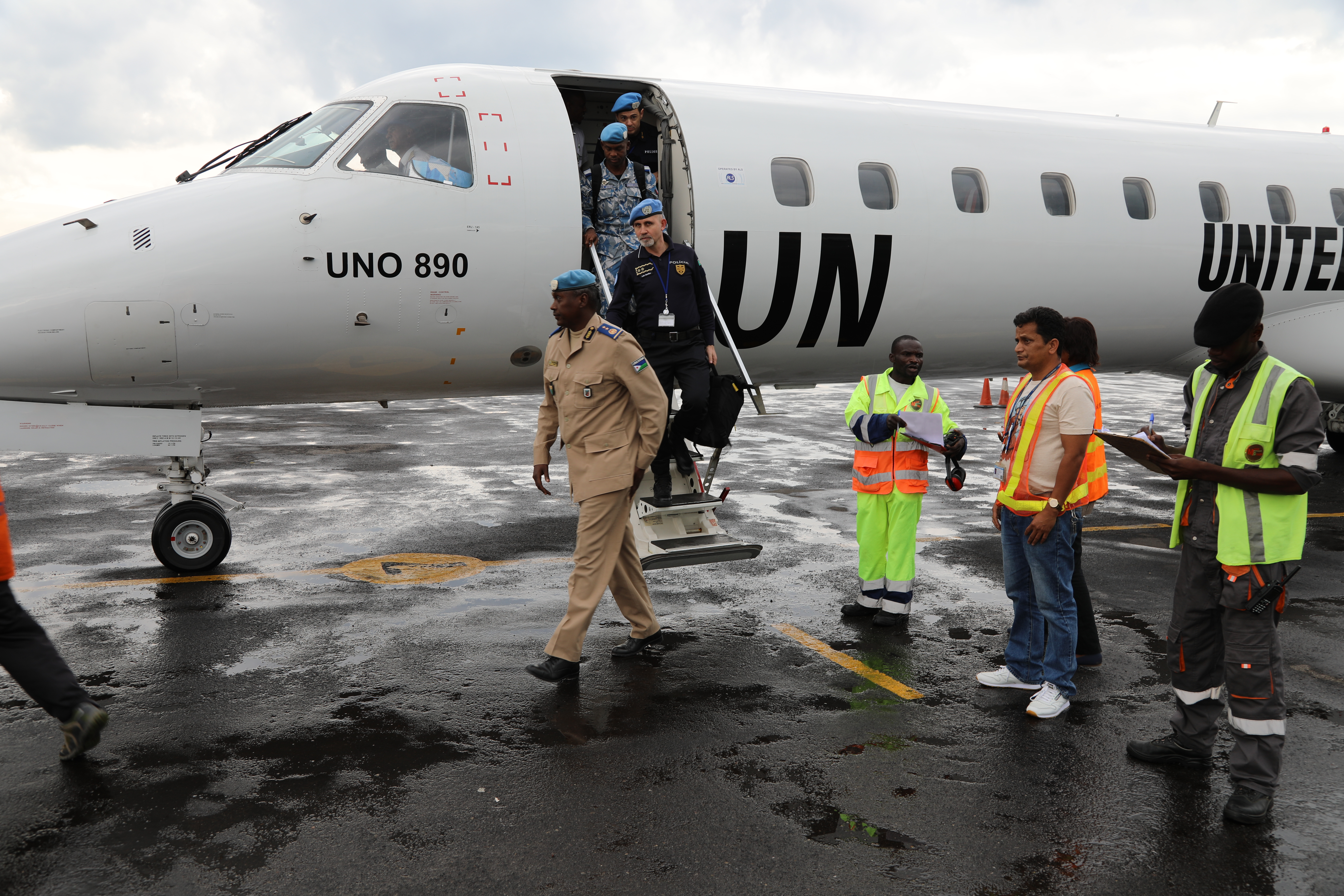 Goma,DR Congo. Major General Luis CARRILHO, UN Police Advisor in the Department of Peacekeeping Operations, accompanied by General Awalé ABDOUNASIR ,MONUSCO Police Commissioner paid a working visit to Goma on the 13 November 2018. He held discussions with various stakeholders as well as provincial authorities. He also reviewed a parade of both UN Police ladies with MONUSCO as well as their counterparts of the Congolese National Police .Photo MONUSCO/Michael Ali